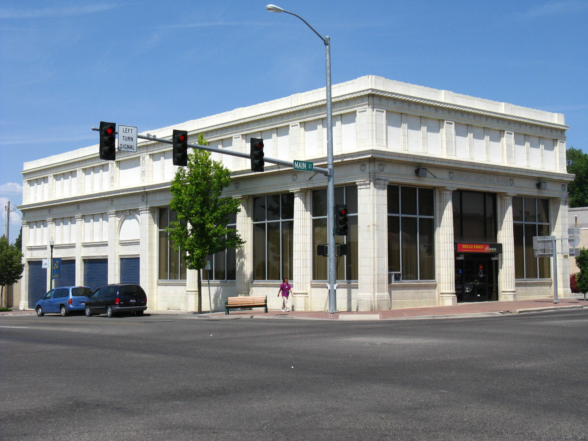 Jerome National Bank, Jerome, Idaho. This building is listed on the National Register of Historic Places.